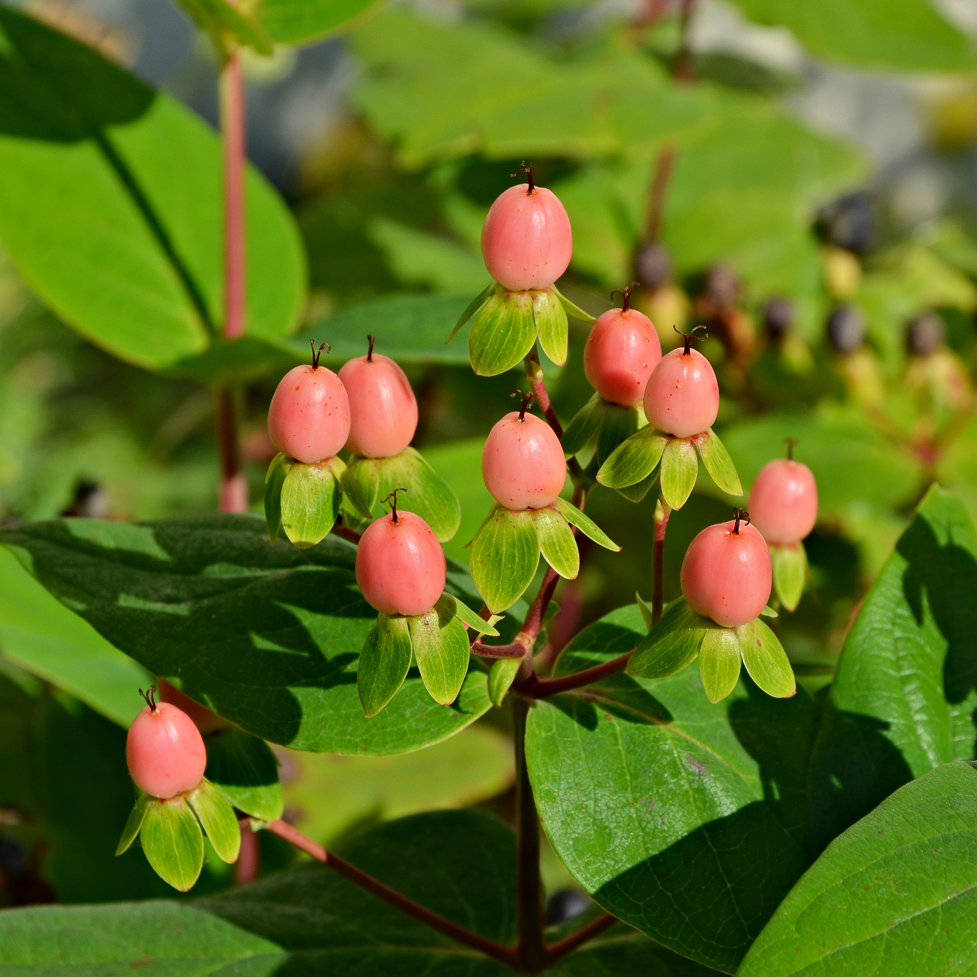 Fruit of tutsan (Hypericum androsaemum), in a private garden, France